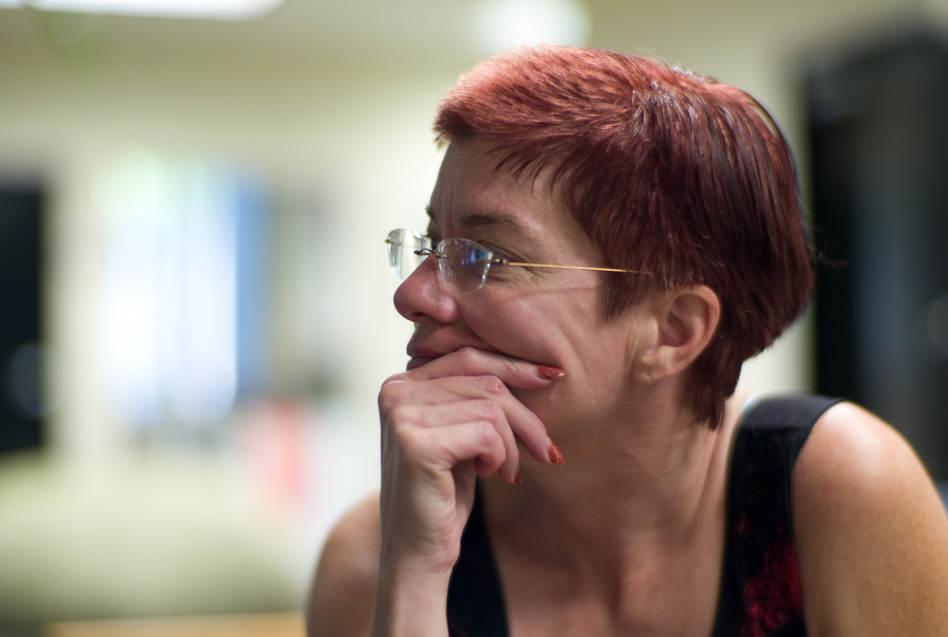 Mitchell Baker